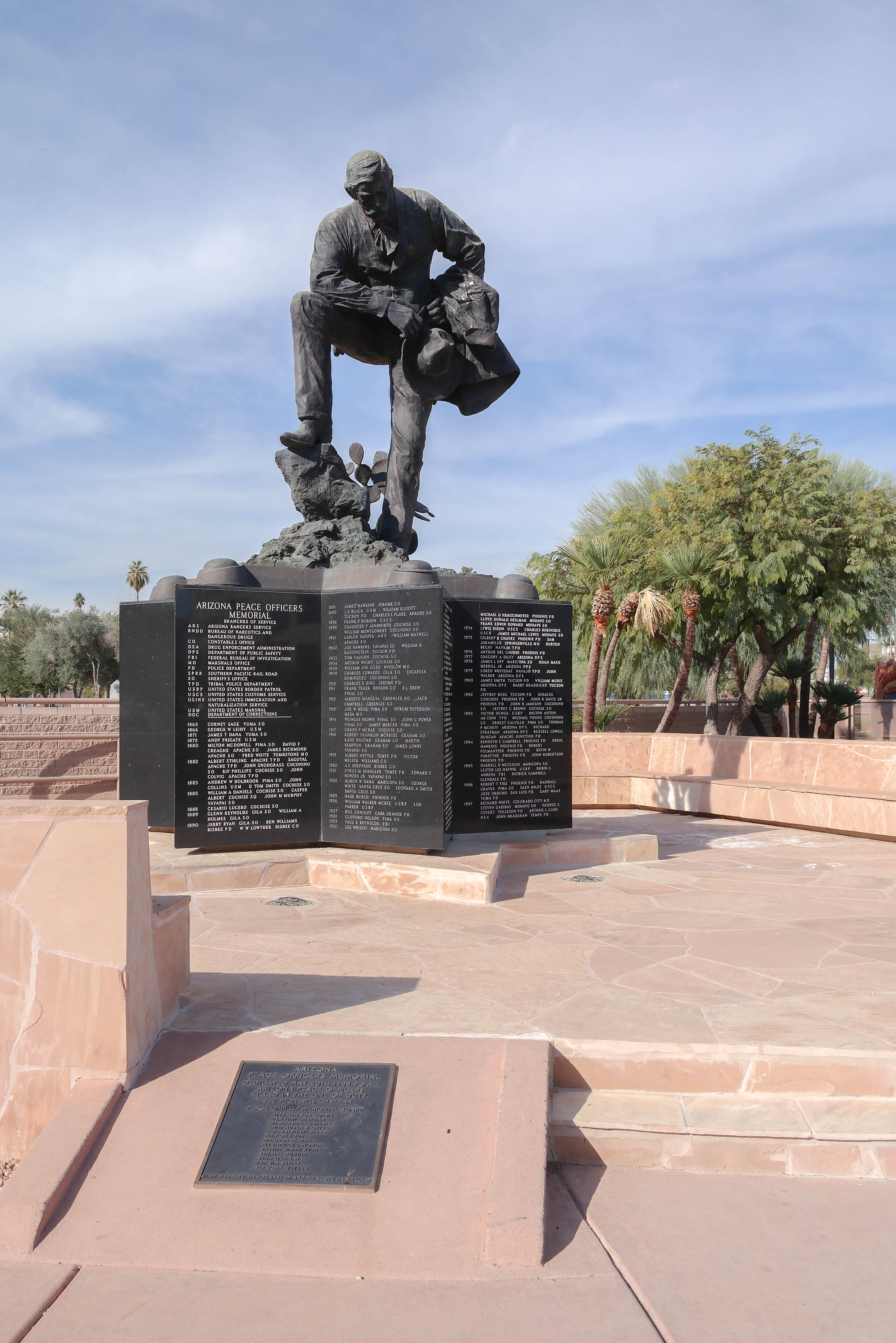 A monument in the Wesley Bolin Memorial Plaza in Phoenix, Arizona